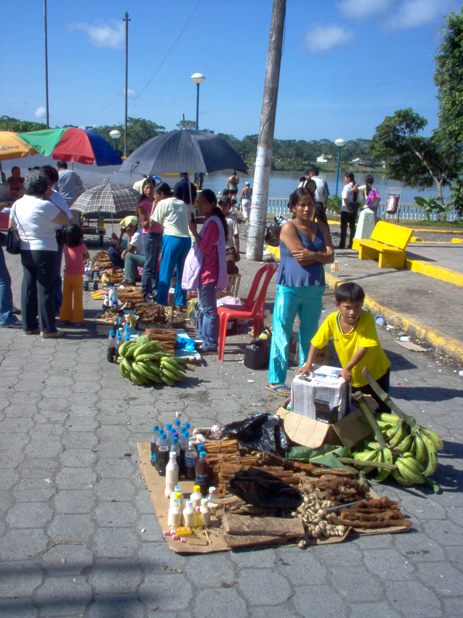 Local market at Puerto Francisco de Orellana, selling "sangre de dragón" and other traditional healing herbs, woods and barks